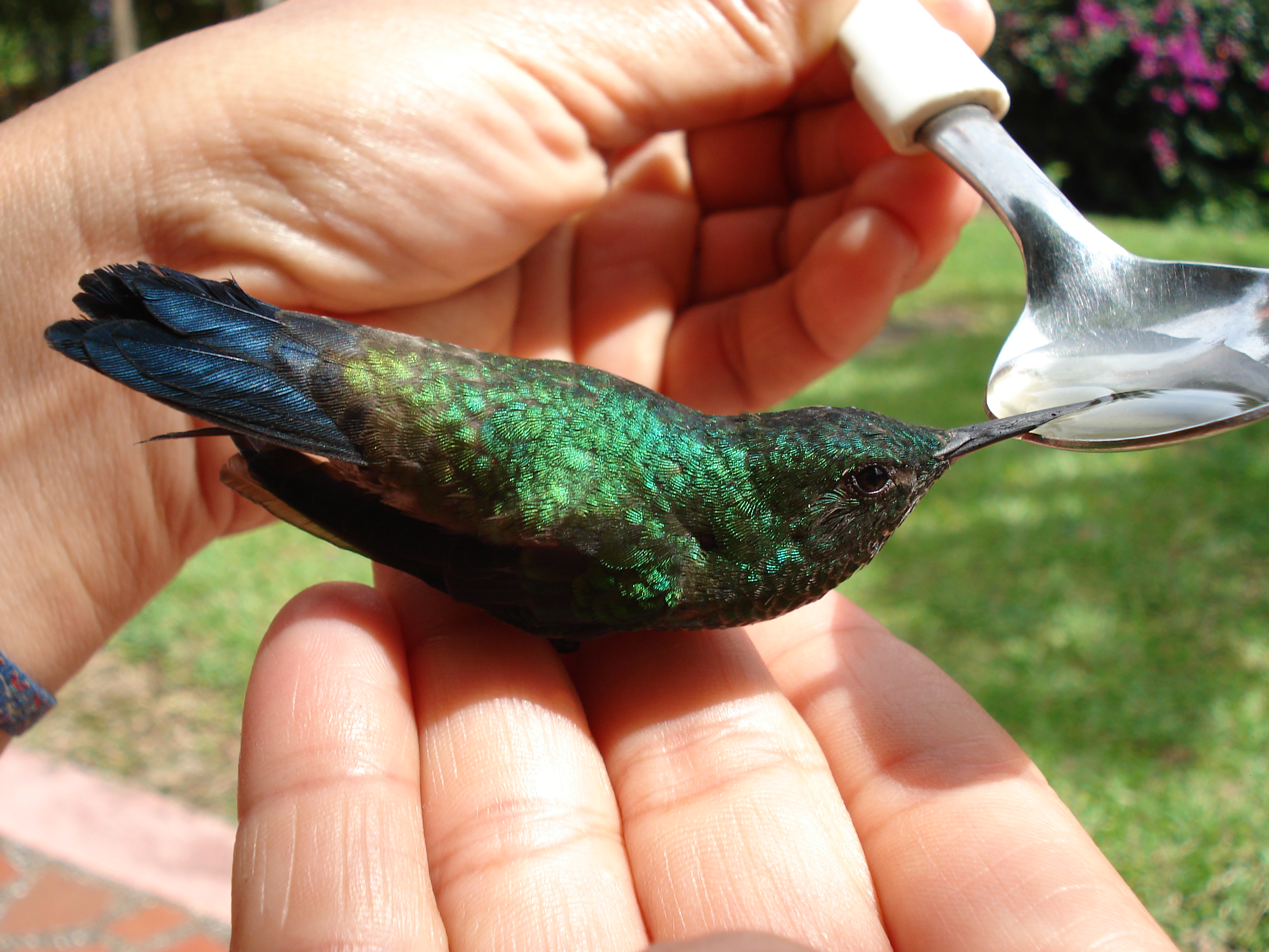 Steely-vented Hummingbird (Amazilia saucerrottei) in Medellin, Colombia.